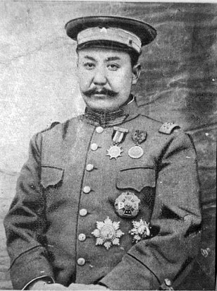 Yan Xishan